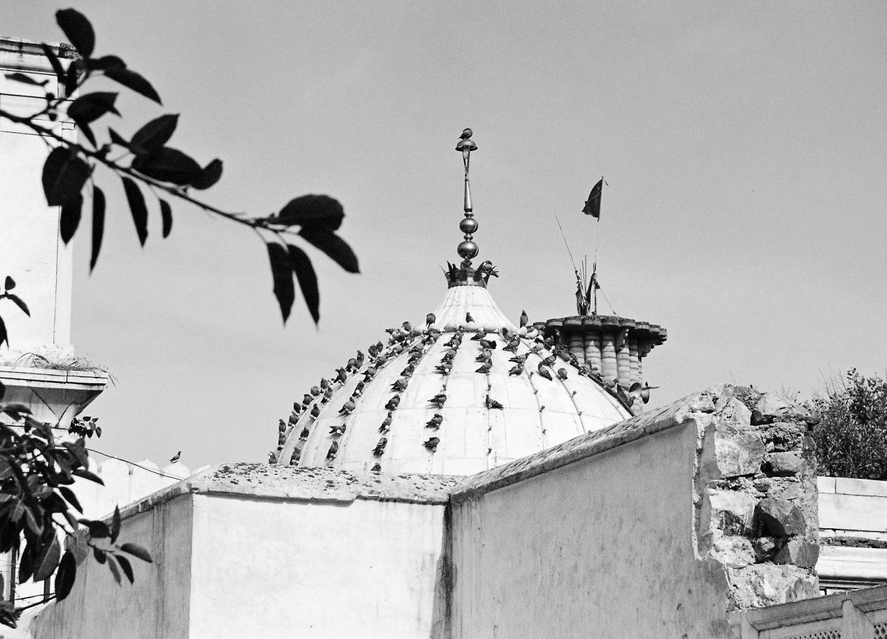 Tomb of Sufi saint, Qutbuddin Bakhtiar Kaki, Mehrauli.